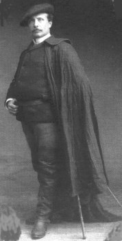 Self portrait photograph of Arthur Batut